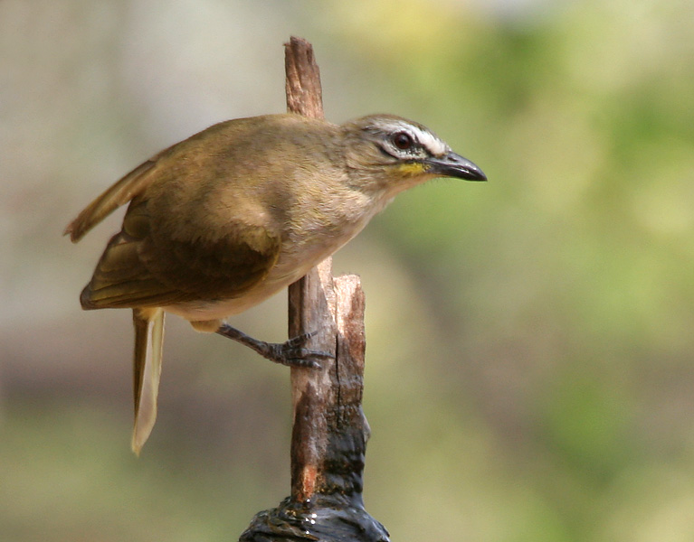 White-browed Bulbul Pycnonotus luteolus at Deer Park in Shamirpet, Rangareddy district, Andhra Pradesh, India.